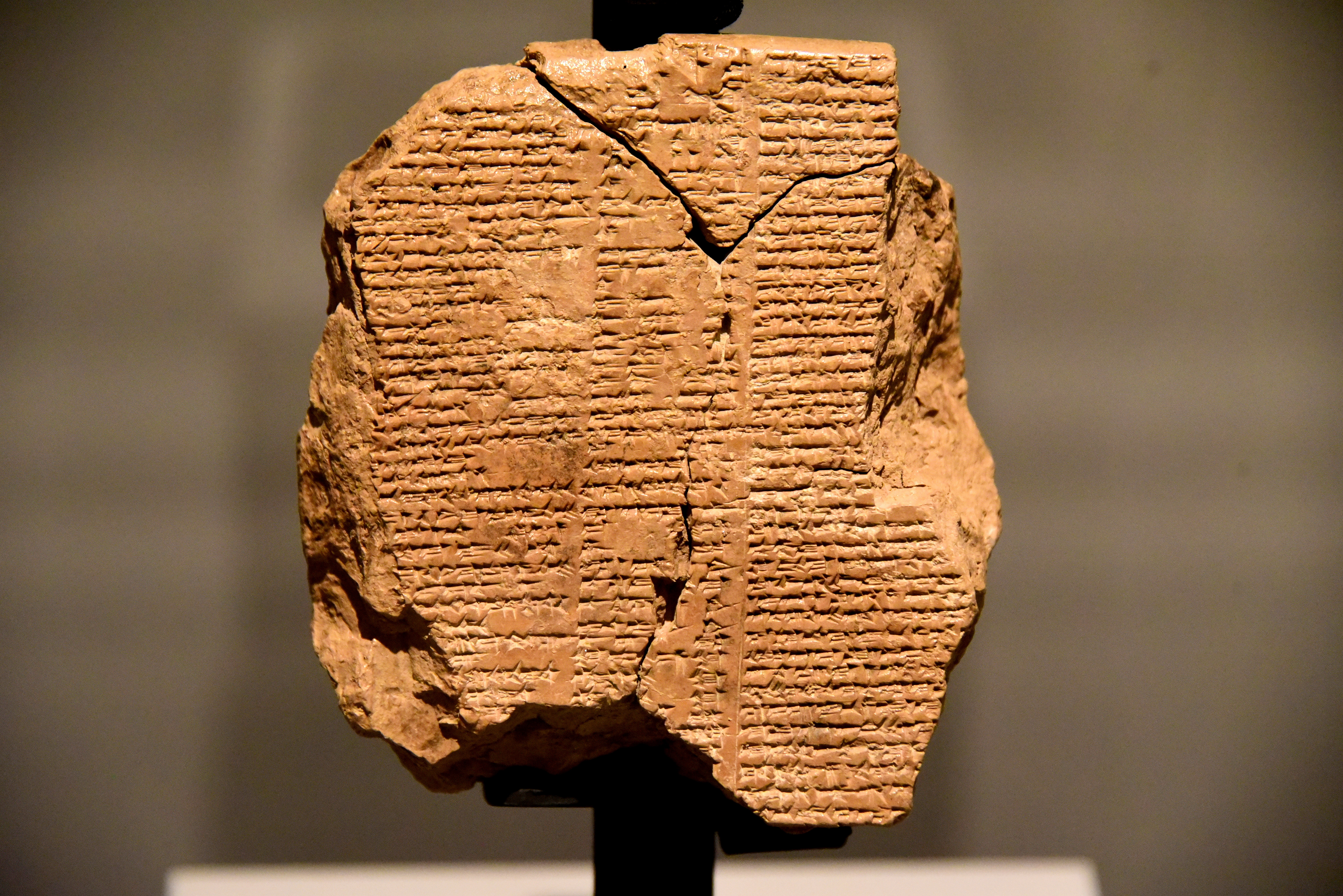 The tablet dates back to the Old-Babylonian Period, 2003-1595 BCE.